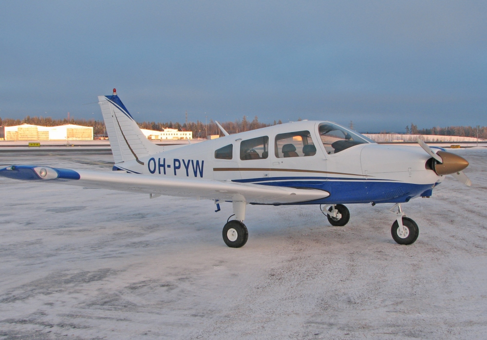 Piper Archer at Helsinki-Vantaa Airport in 2006